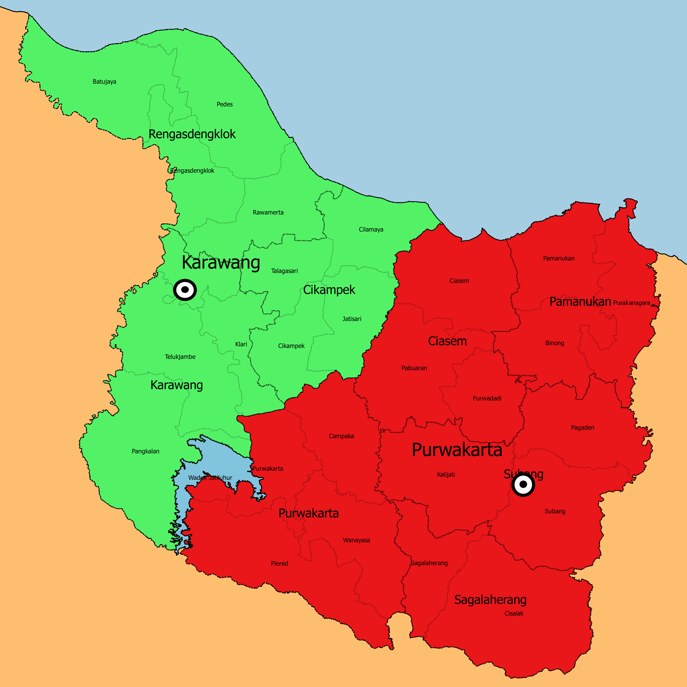 Showed up Purwasuka geocultural region in 1950's Sunda: Nampilkeun wilayah geobudaya Purwasuka dina taun 1950